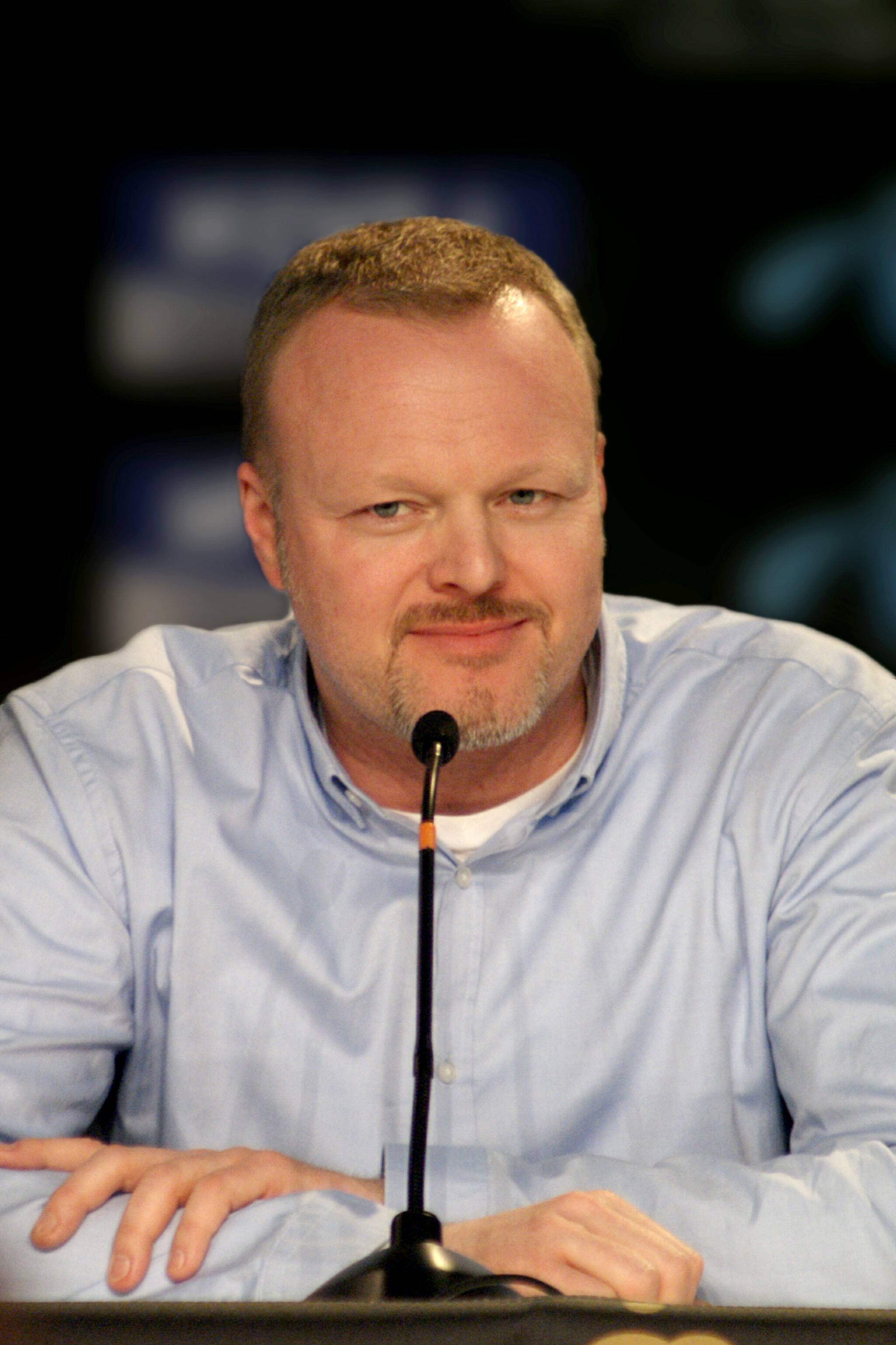 Stefan Raab at a Eurovision Song Contest 2010 press conference